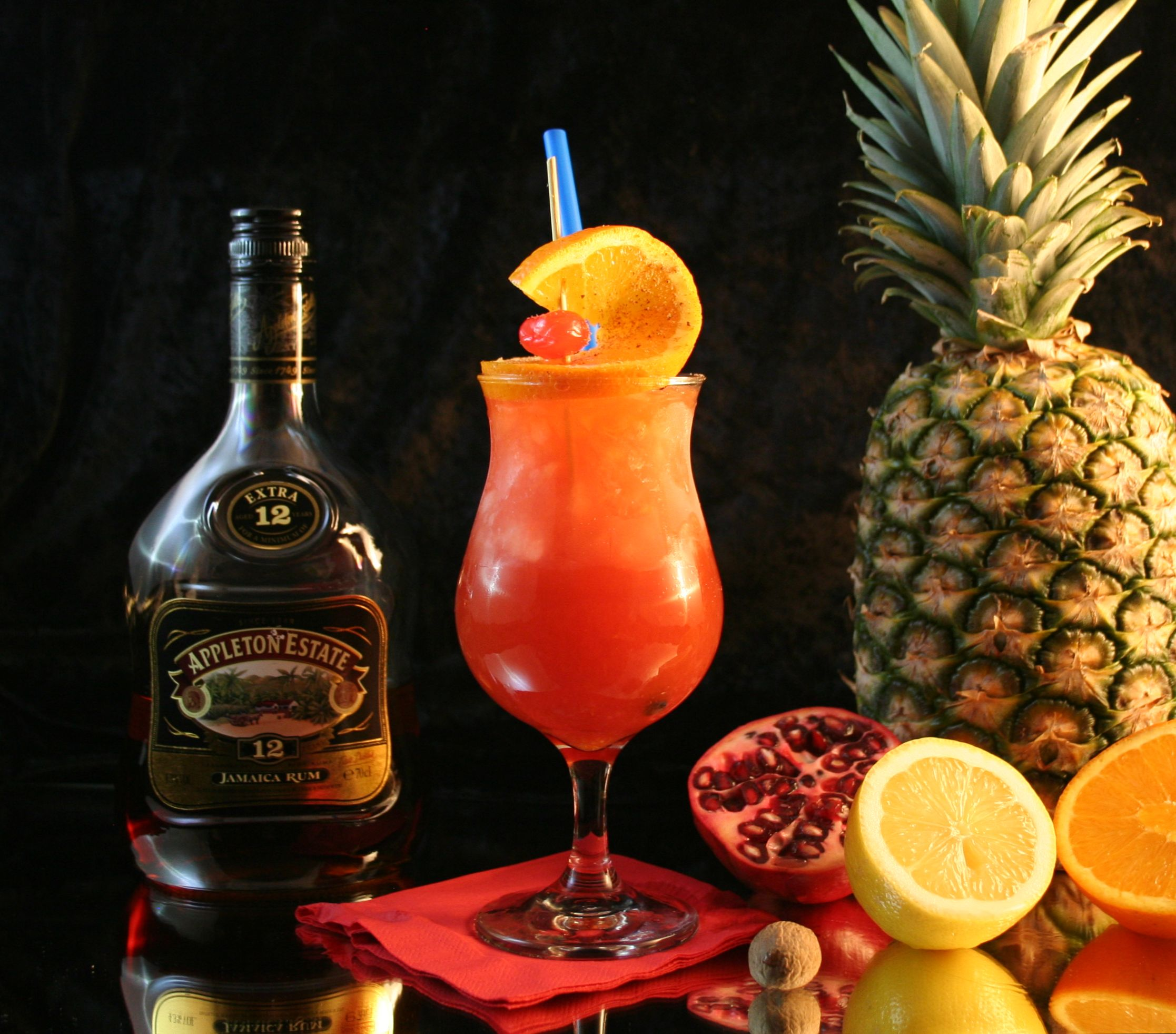 Planter's Punch with key ingredients. From left to right: Jamaica rum, Planter's Punch in a Squall/Fancy Glass (with a straw, garnished with a slice of orange and a cocktail cherry), pomegranate, nutmeg, pineapple, lemon, orange